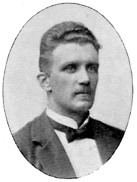 Image scanned from the book "Svenskt Porträttgalleri XX - Arkitekter, Bildhuggare, Målare m.fl. " ("Swedish Portrait Gallery XX - Architects, Sculptors, Painters, ") published 1901